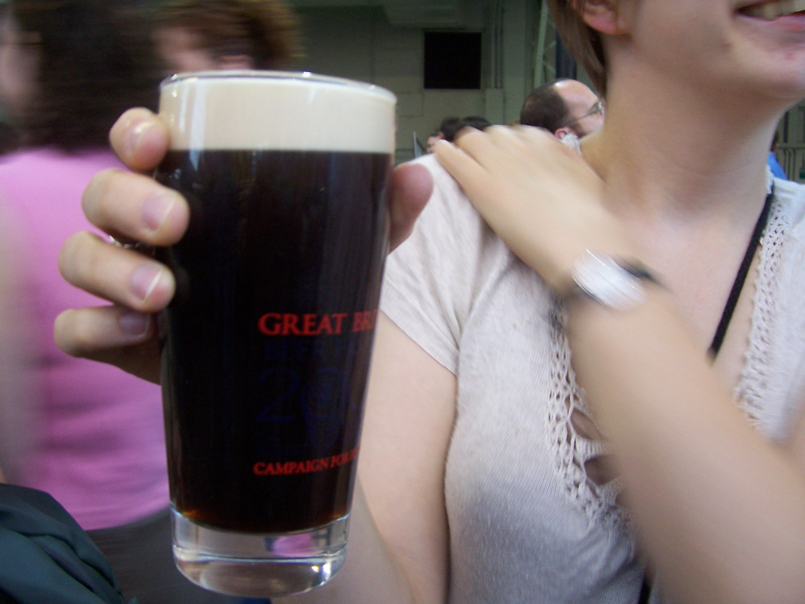 Catherine shows off her perfectly poured Theakston's Mild - with it's lovely, creamy northern style head. I should of course point out that it is in a lined glass, and there is a full half pint in there! Taken at the Great British Beer Festival, Olympia, 5 August 2005.